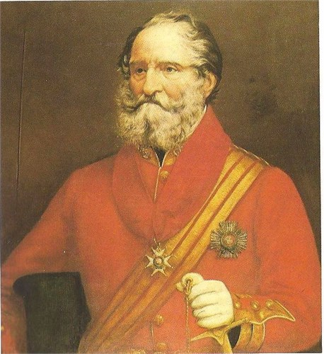 Sir Edward Nicolls of the Royal Marines later in life as a Knight Commander of the Bath, in a portrait that hangs at the Officers' Mess of the Royal Marines Barracks in Plymouth